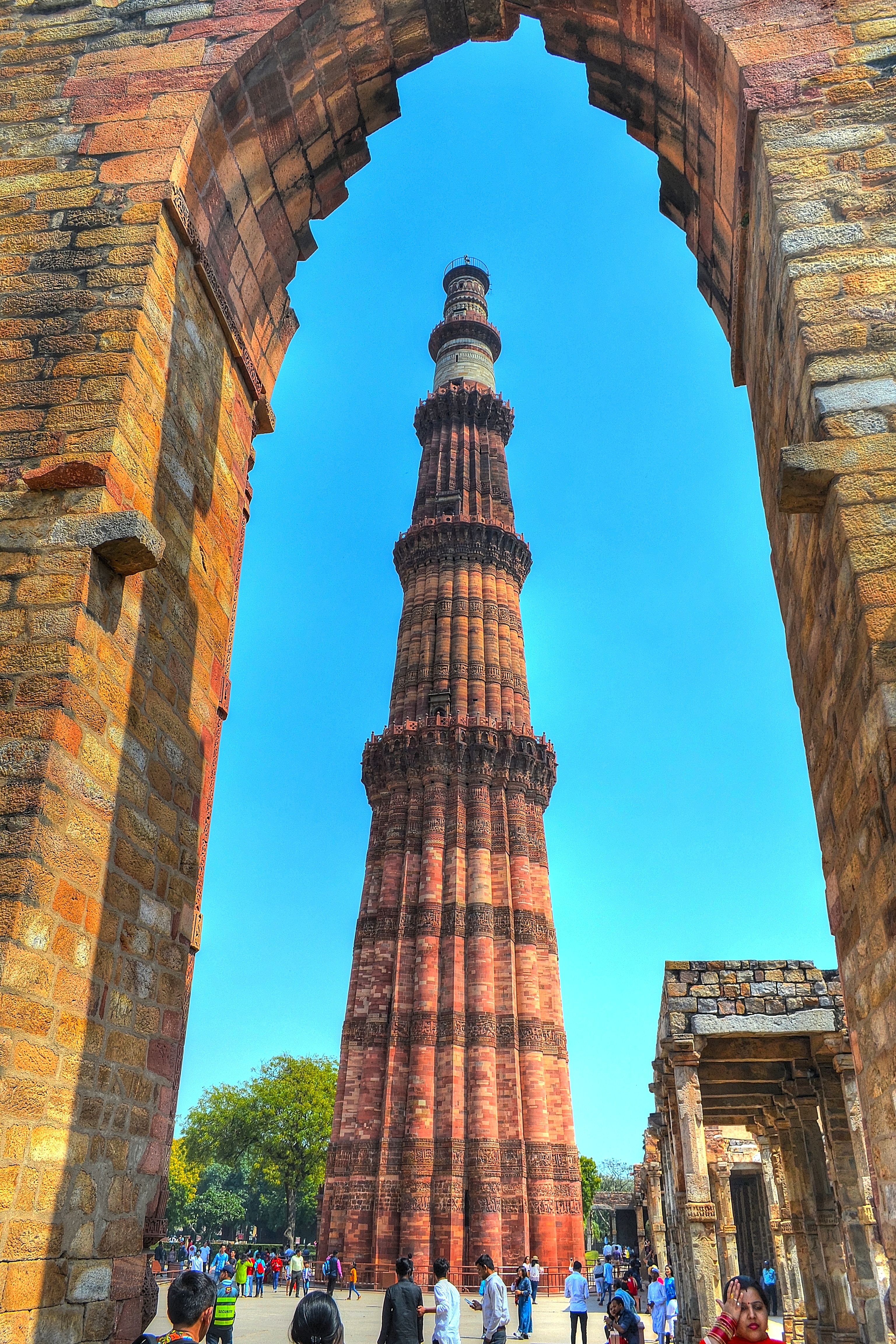 Qutub Minar